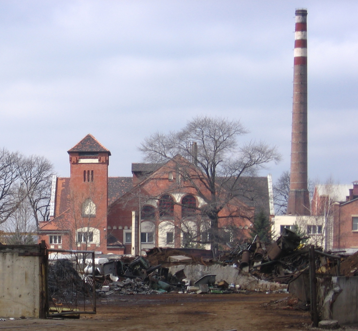 19th-century pumpung station in riverport near Odra River in Wrocław, Poland